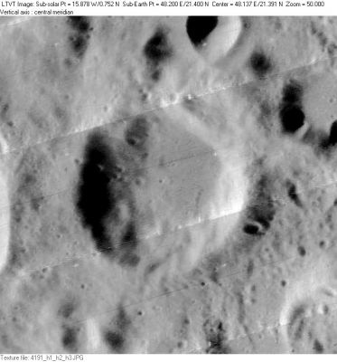 Tisserand lunar crater - Lunar Orbiter - IV image LO-IV-191H LTVT.